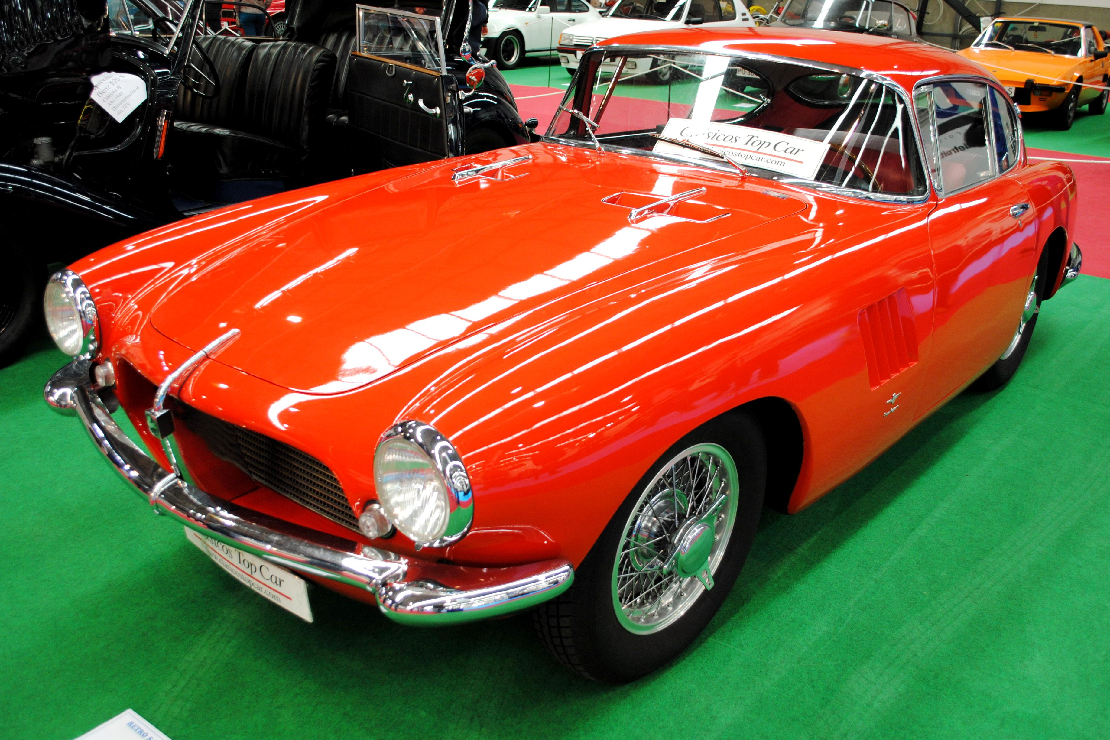 Pegaso Z103 Panorámico, 1955, IFEVI, 2014 (2).JPG